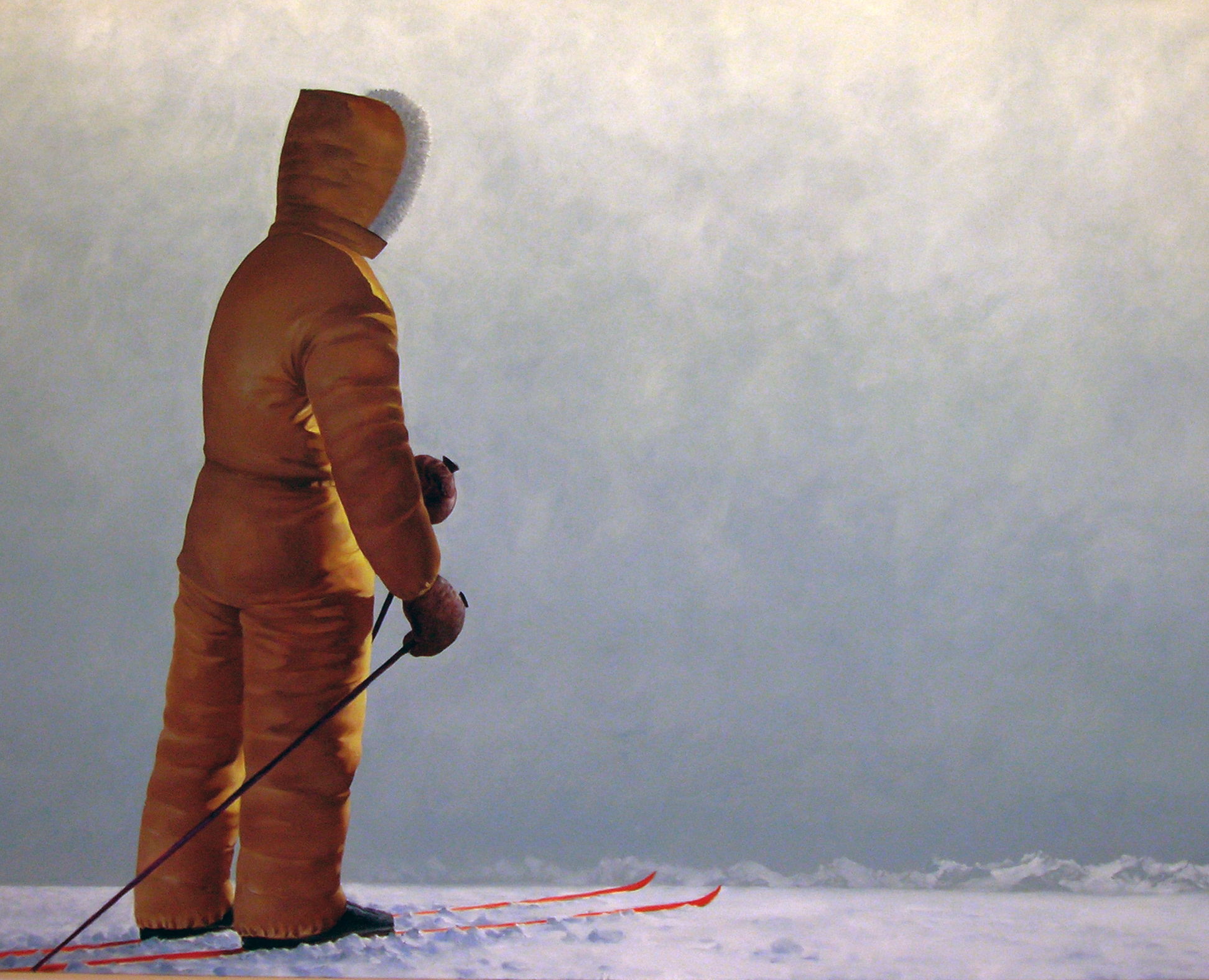 Forscher auf Skiern - artwork of an expedition painter. (Oil on canvas, 200 x 250 cm.)